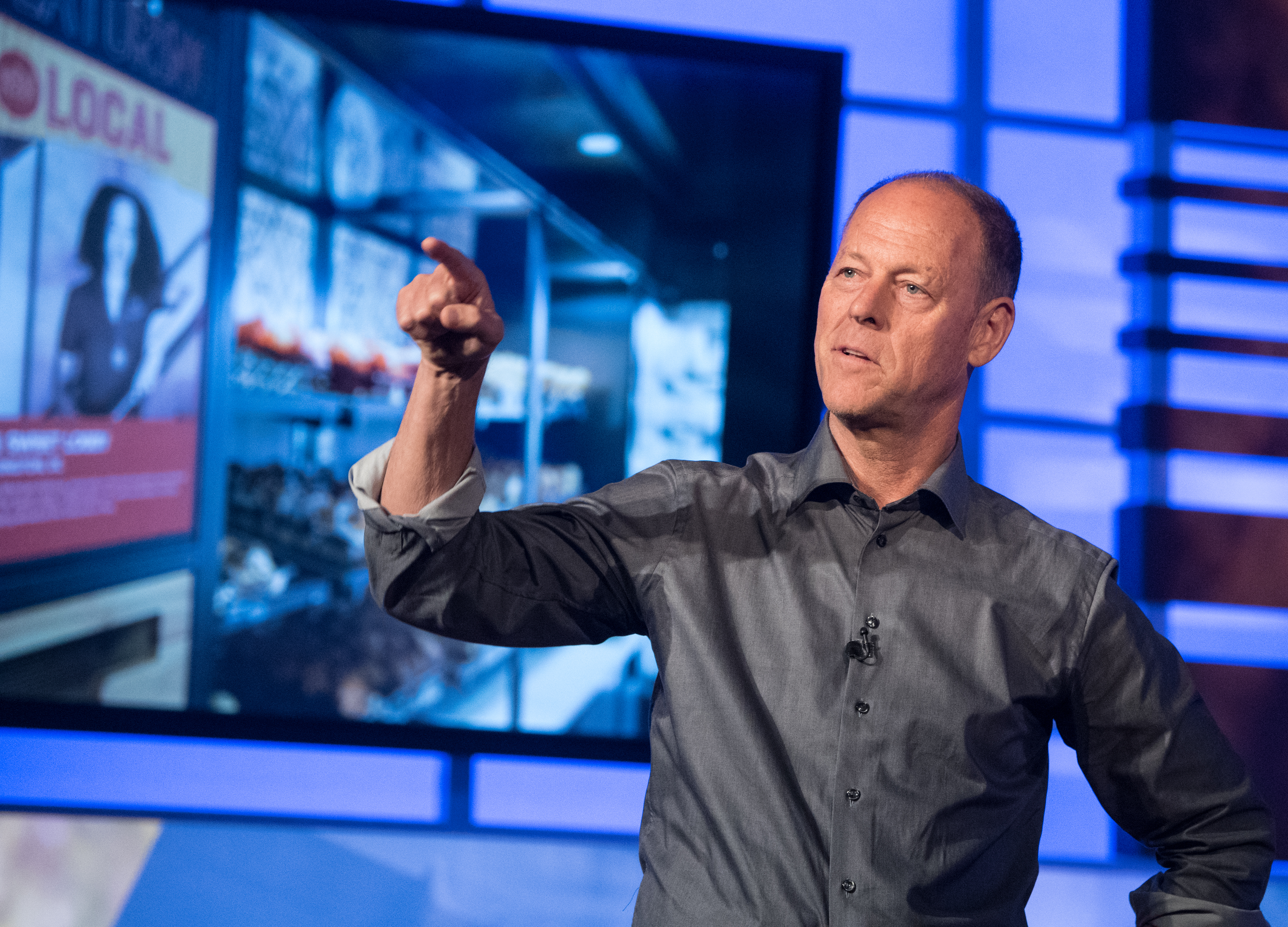 Whole Foods Market Former CEO and Retail Consultant, Walter Robb talks about the importance of local foods, during the day’s closing conversation, on Monday, April 3, 2017, at GWU, Washington, DC. The U.S. Department of Agriculture (USDA) Agricultural Marketing Service (AMS), in partnership with GWU hosts the Local Food Impacts Conference. Congressionally authorized grant and loan programs to support local food systems have expanded in recent years. Quantifying and evaluating the impacts of these programs is critical. Attendees can explore how to best measure the impacts of local food investments, improve coordination across USDA agencies, and evaluate the extent to which disparate local food investments are complementary and reinforcing. Beyond metrics, this conference provides an opportunity to share local food stories with new stakeholders. For more information, please see and USDA Photo by Lance Cheung.